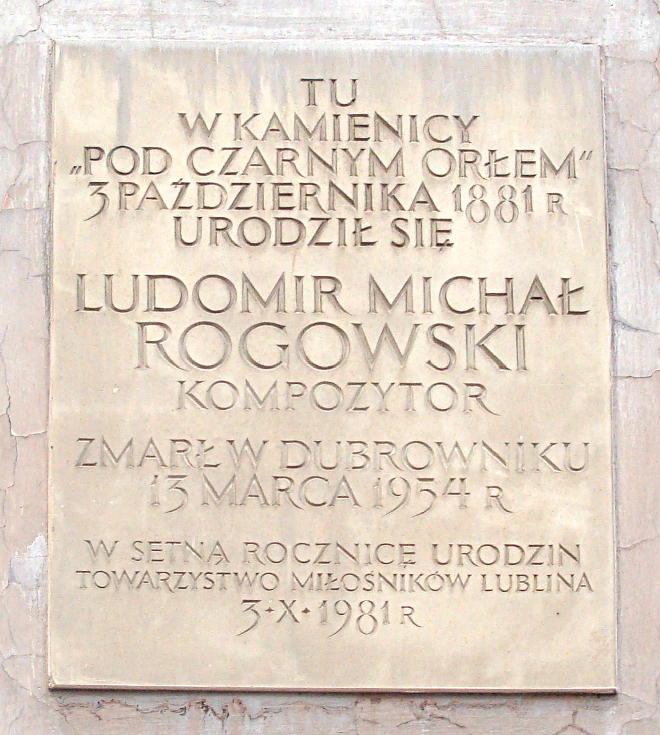 Plaque commemorising birth of Ludomił Michał Rogowski, Polish composer, who was born in this house, Bramowa Street in Lublin, Poland.